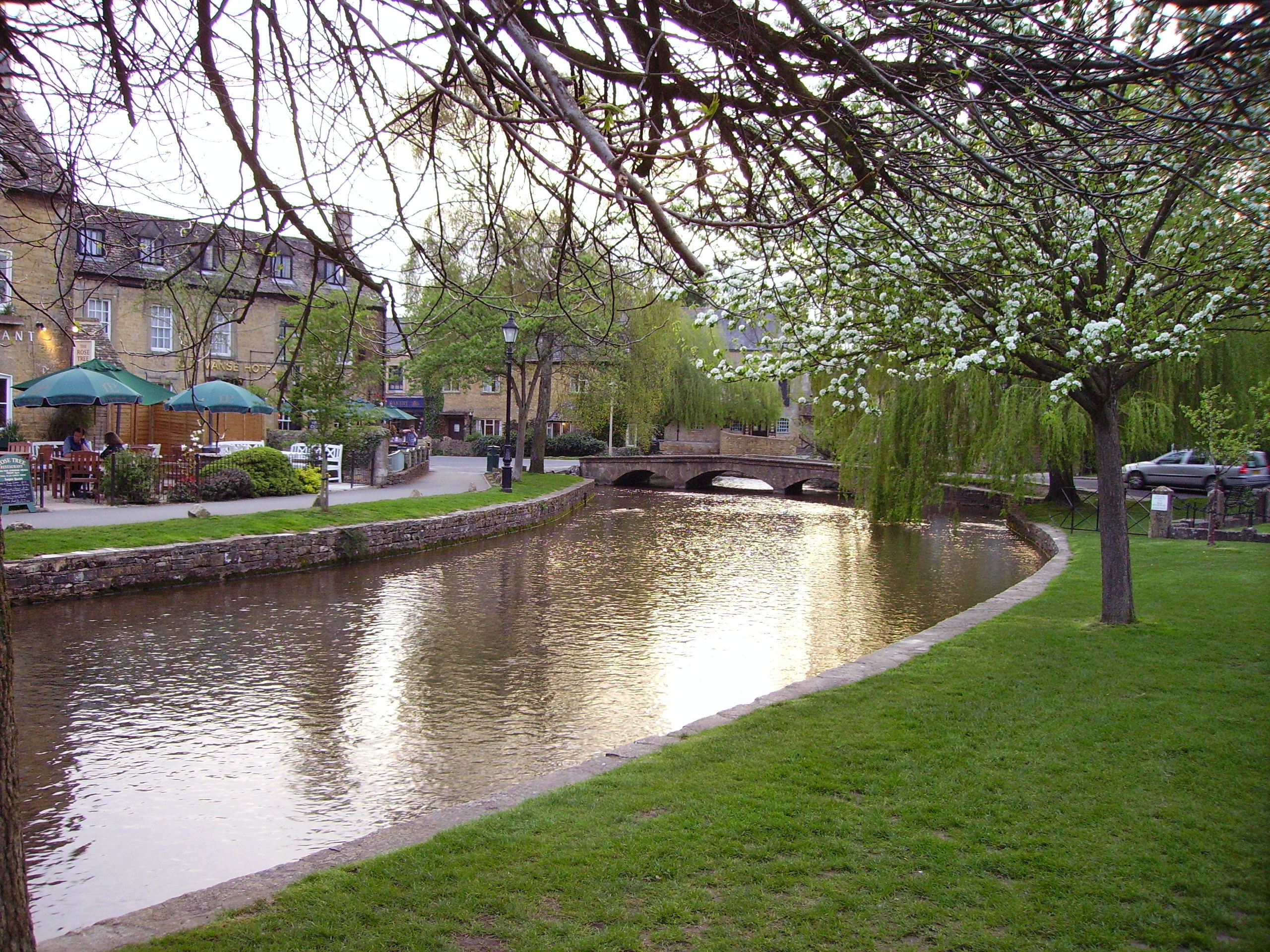 Photographer: User:Ballista Talk